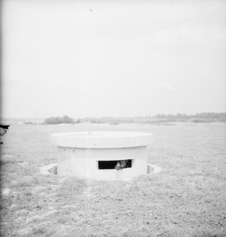 Royal Air Force Fighter Command, 1939-1945. The turret of a Pickett-Hamilton Retractable Fort, fully raised and manned by a bren-gun team of the Coldstream Guards, taken on a fighter airfield in Southern England.